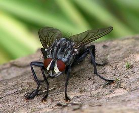 Flesh-fly (Sarcophagidae), possibly Sarcophaga carnaria